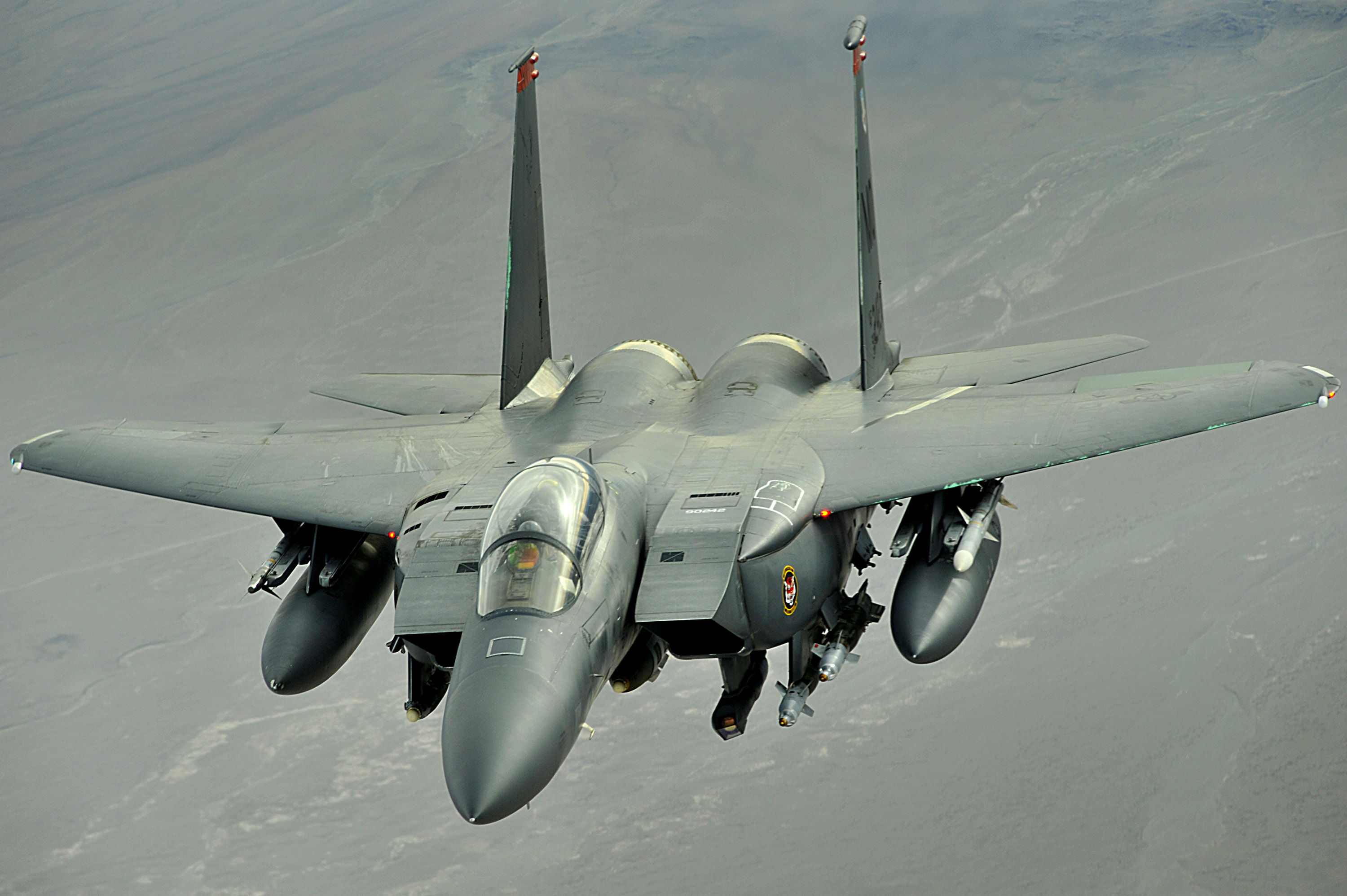 An F-15E Strike eagle conducts a mission over Afghanistan on Oct. 7. The F-15E Strike Eagle is a dual-role fighter designed to perform air-to-air and air-to-ground missions. An array of avionics and electronics systems gives the F-15E the capability to fight at low altitude, day or night, and in all weather. (U.S. Air Force photo/Staff Sgt. Aaron Allmon)